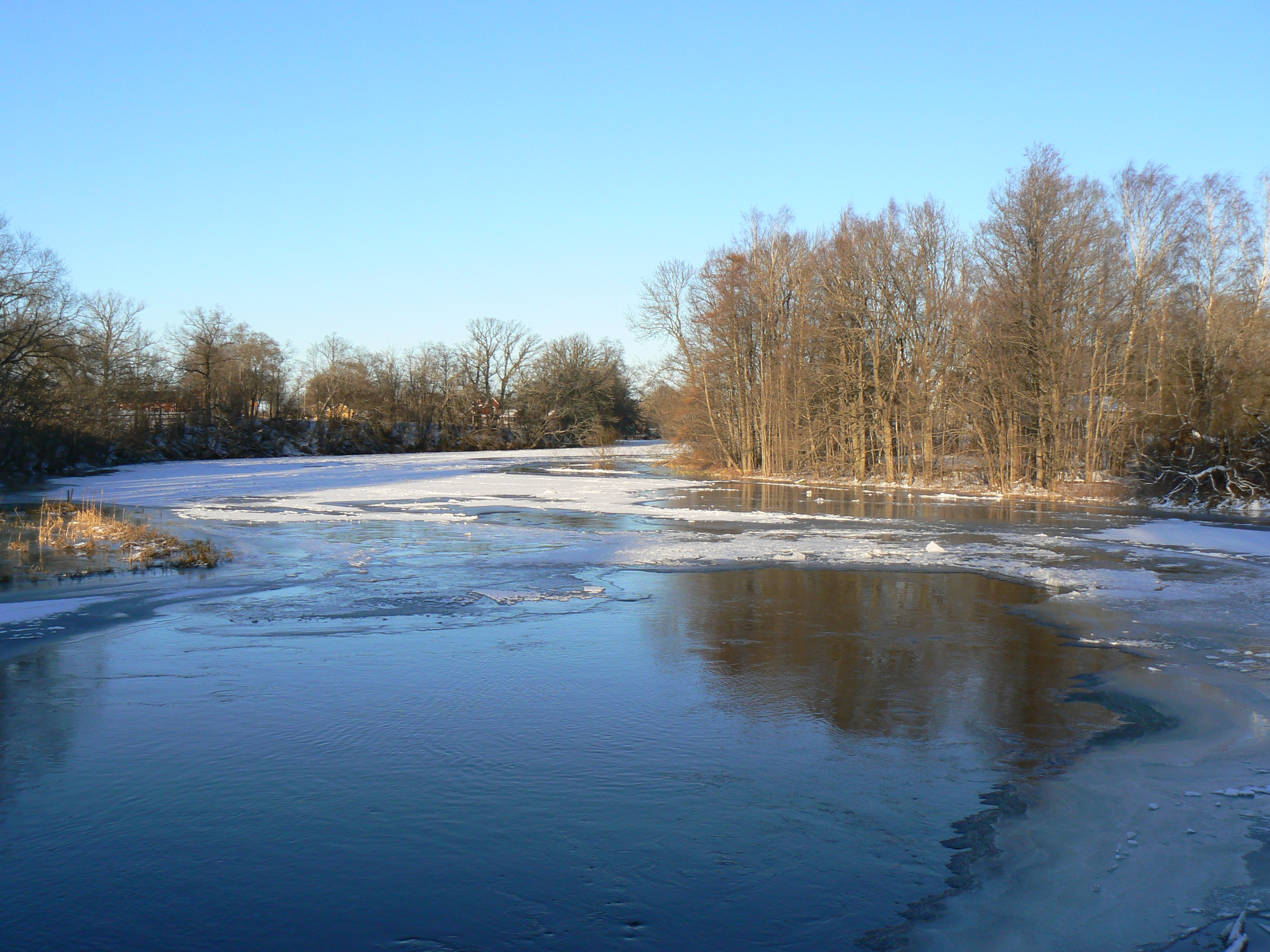 Svartån, river in Småland and Östergötland, Sweden. Photo taken at Ledberg.